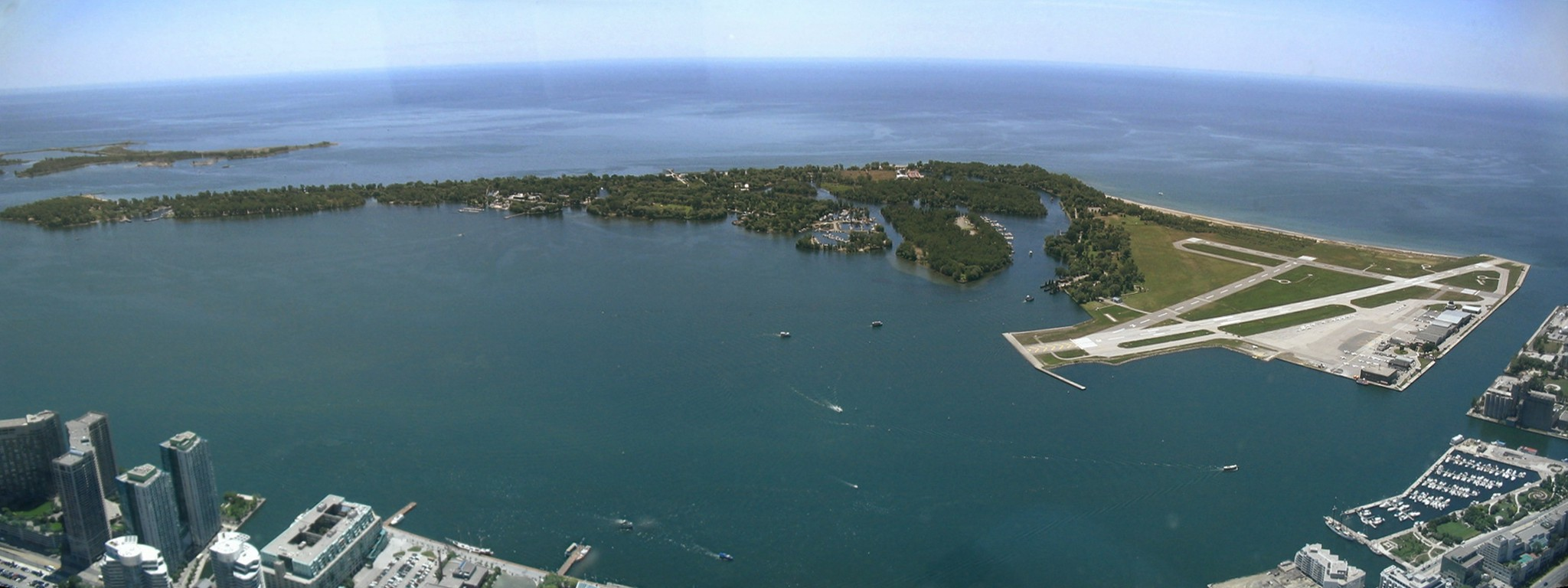 Panorama of Toronto Islands viewed from the CN Tower.